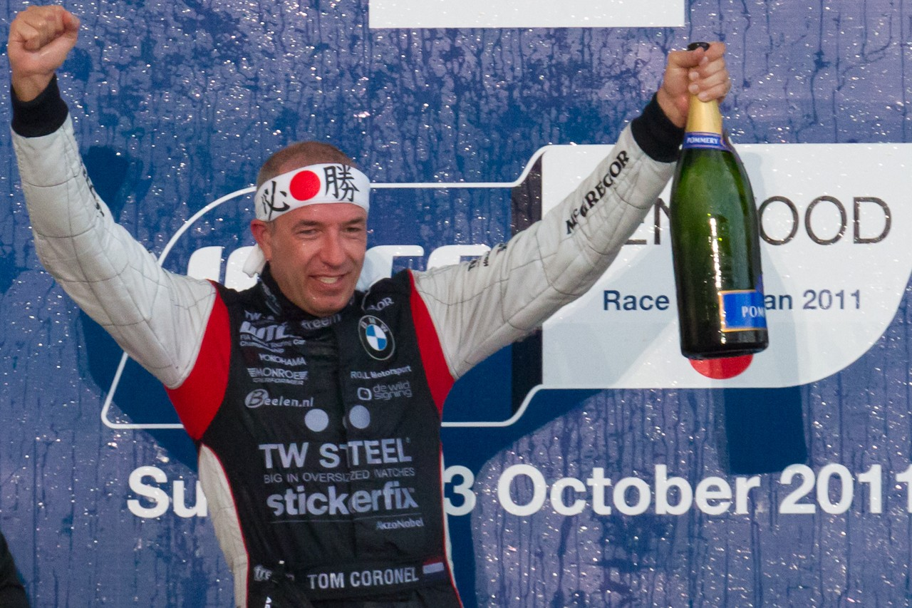 World Touring Car Championship 2011 Race of Japan: Tom Coronel (ROAL Motorsport) celebrating the victory in the race 2.